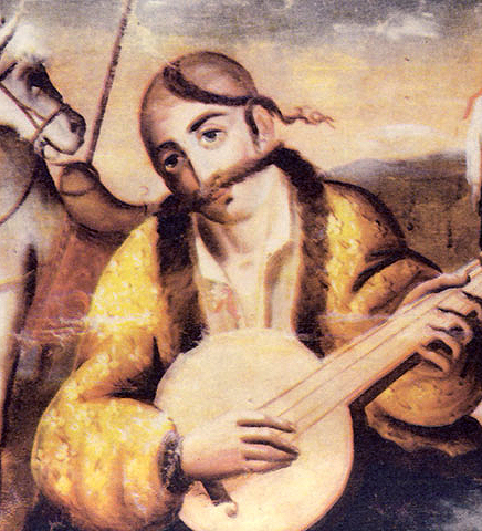 Cossack Mamay